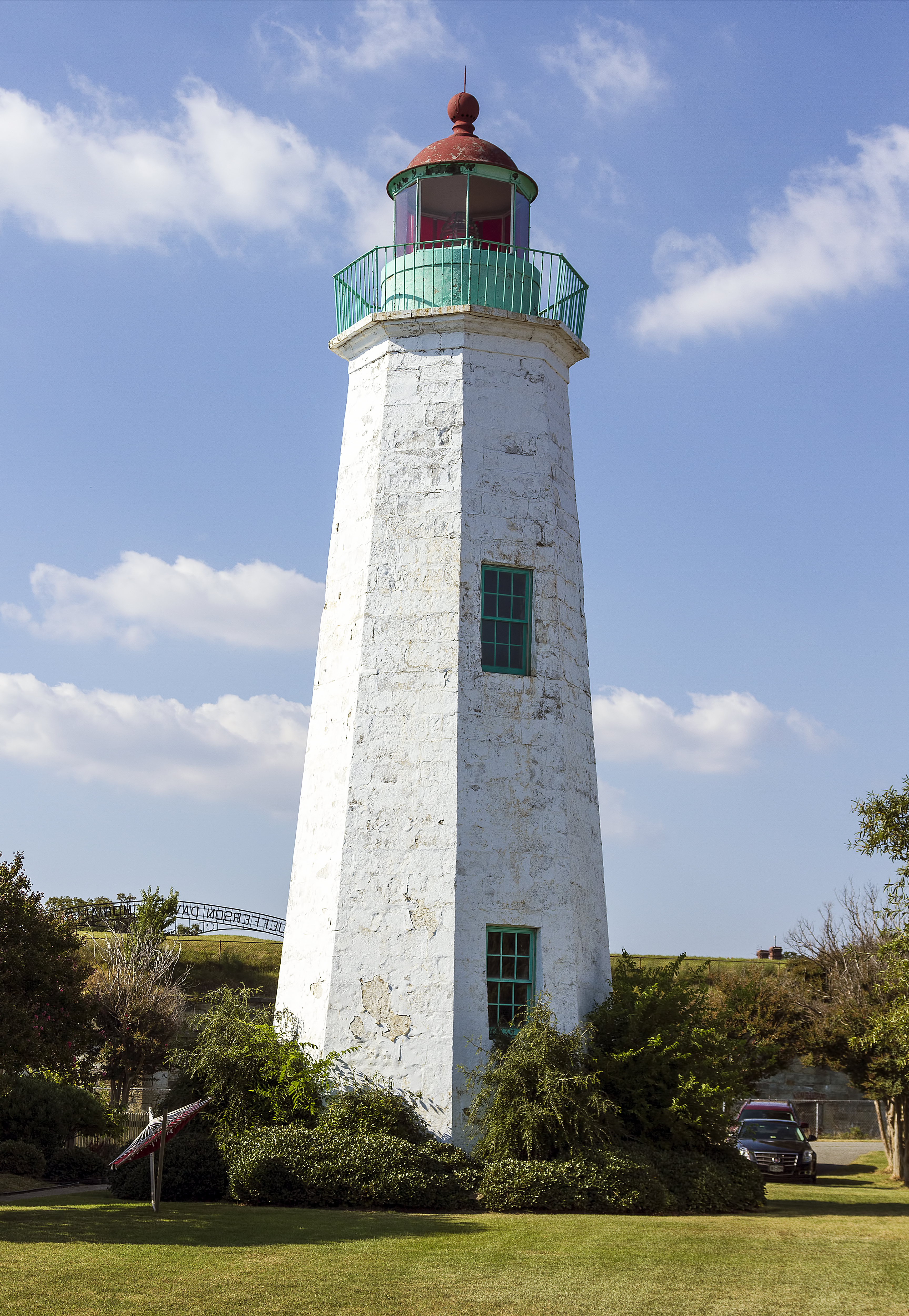 Old Point Comfort Lighthouse, Old Point Comfort Lighthouse with Fort Monroe behind, Hampton, Virginia, USA